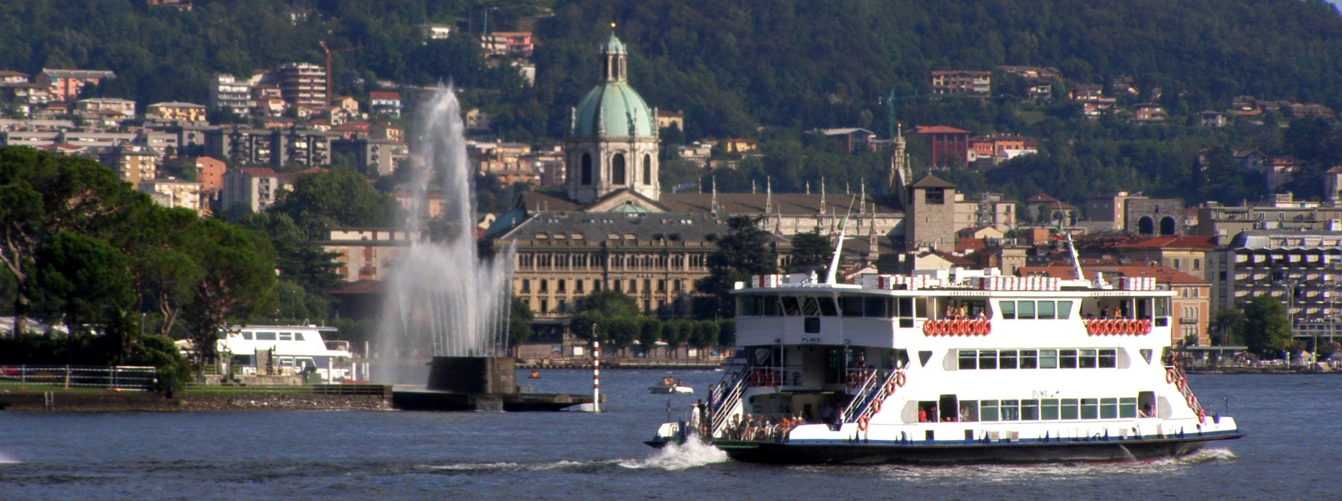 Como, the lakefront.